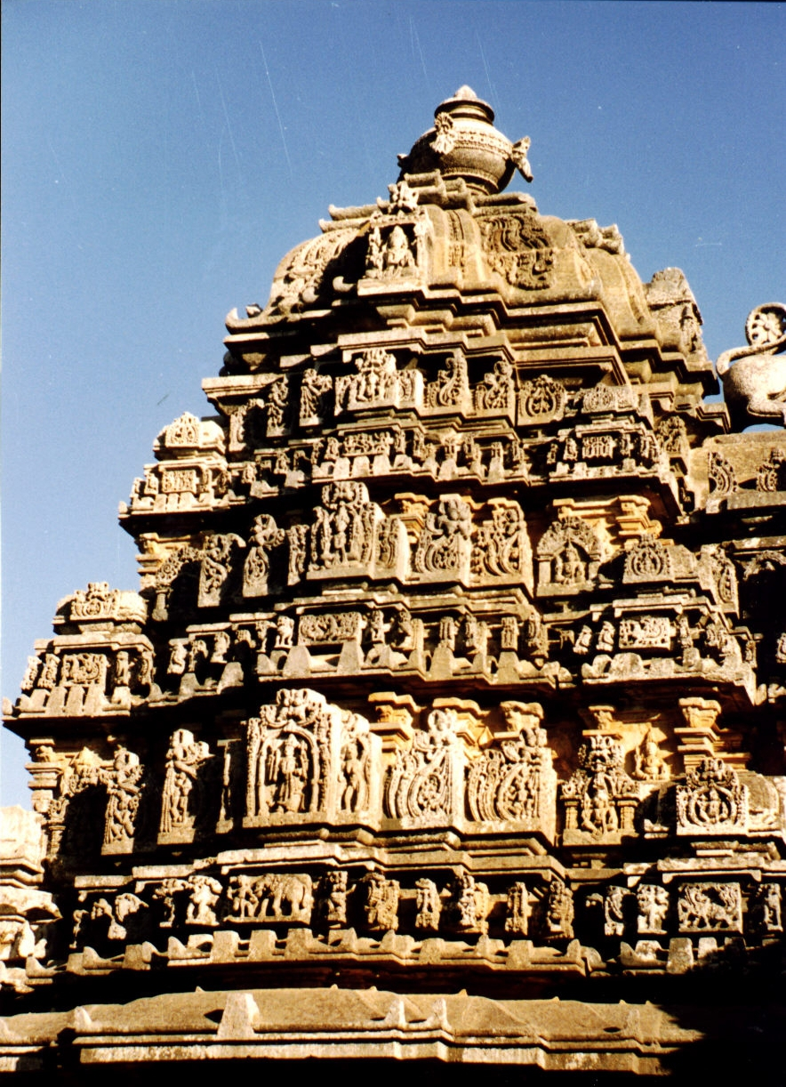 Arsikere, Hoysala Dinasty, Karnataka, India